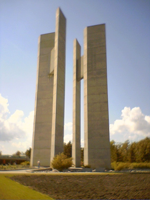 International Peace Garden Peace Towers.